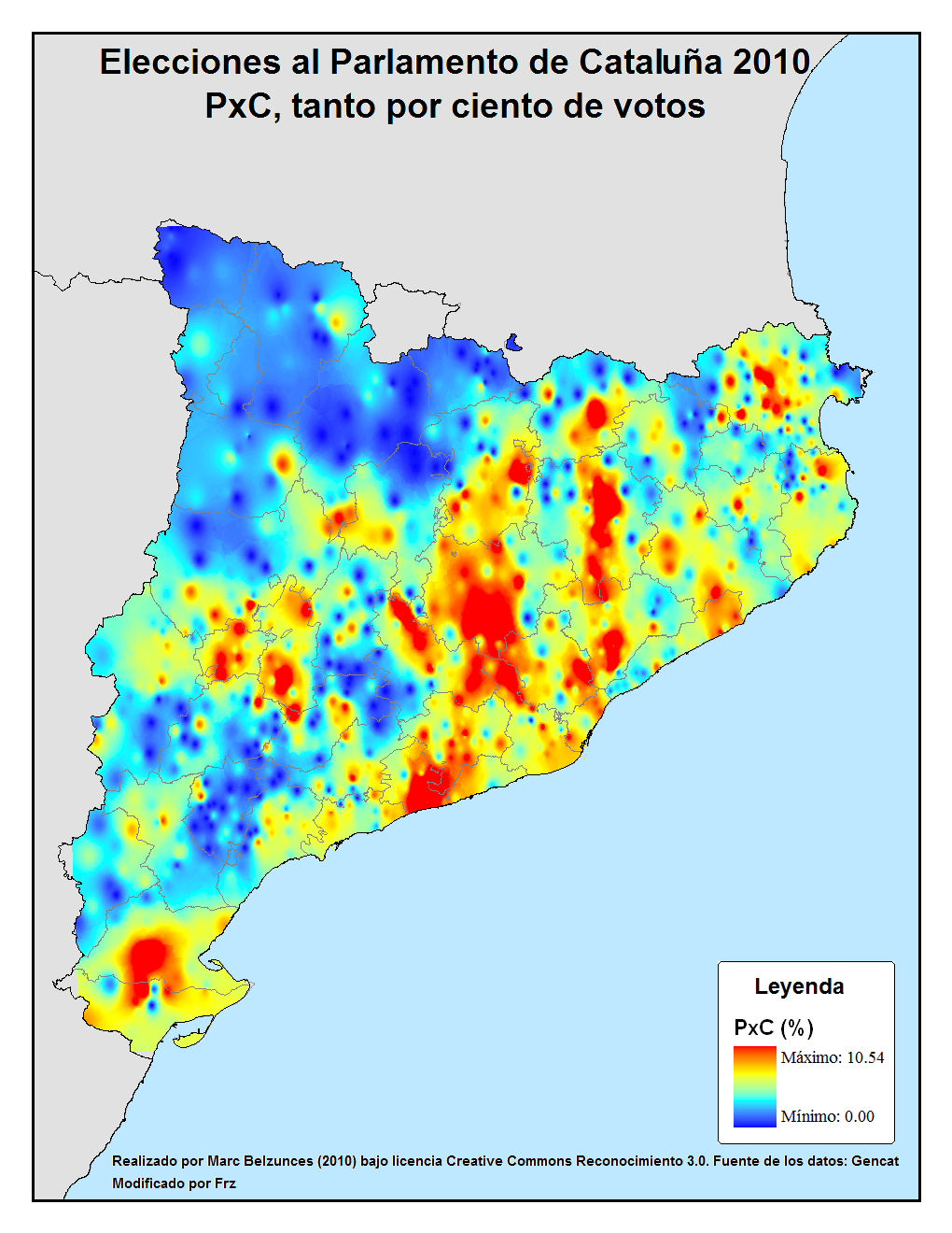 Distribution of the Platform for Catalonia to vote in elections to the Parliament of Catalonia 2010.